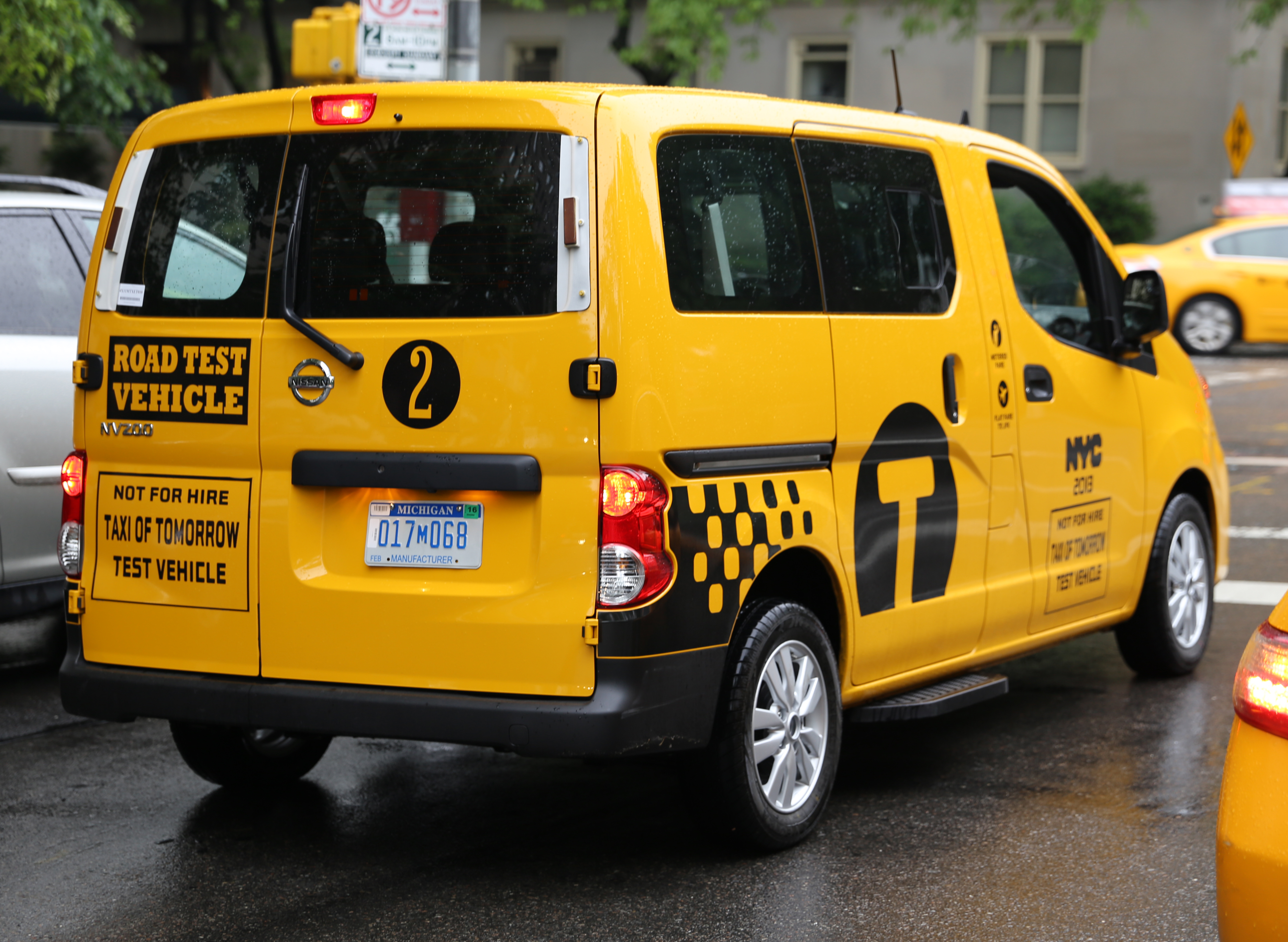 Rear view of Nissan NV200 New York Taxi test car. It won't pick you up. With Michigan manufacturer's plates. I wonder what those rinky-dink white plastic bits on the rear windows are?